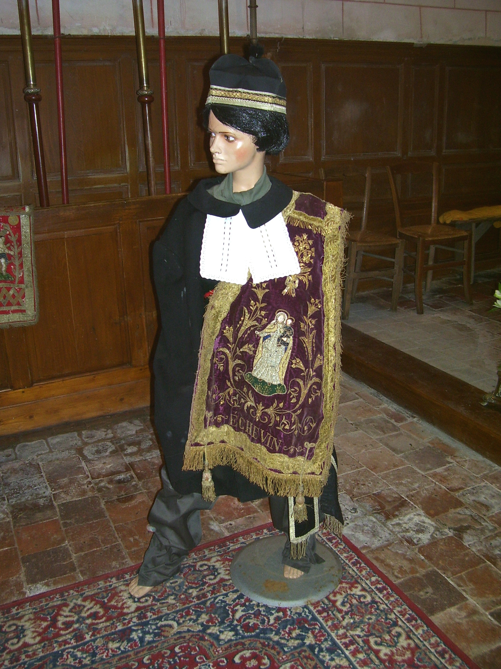 Mannequin wearing the full costume of a "chariton" in Saint-Cyr-de-Salerne (Eure, Normandie, France).